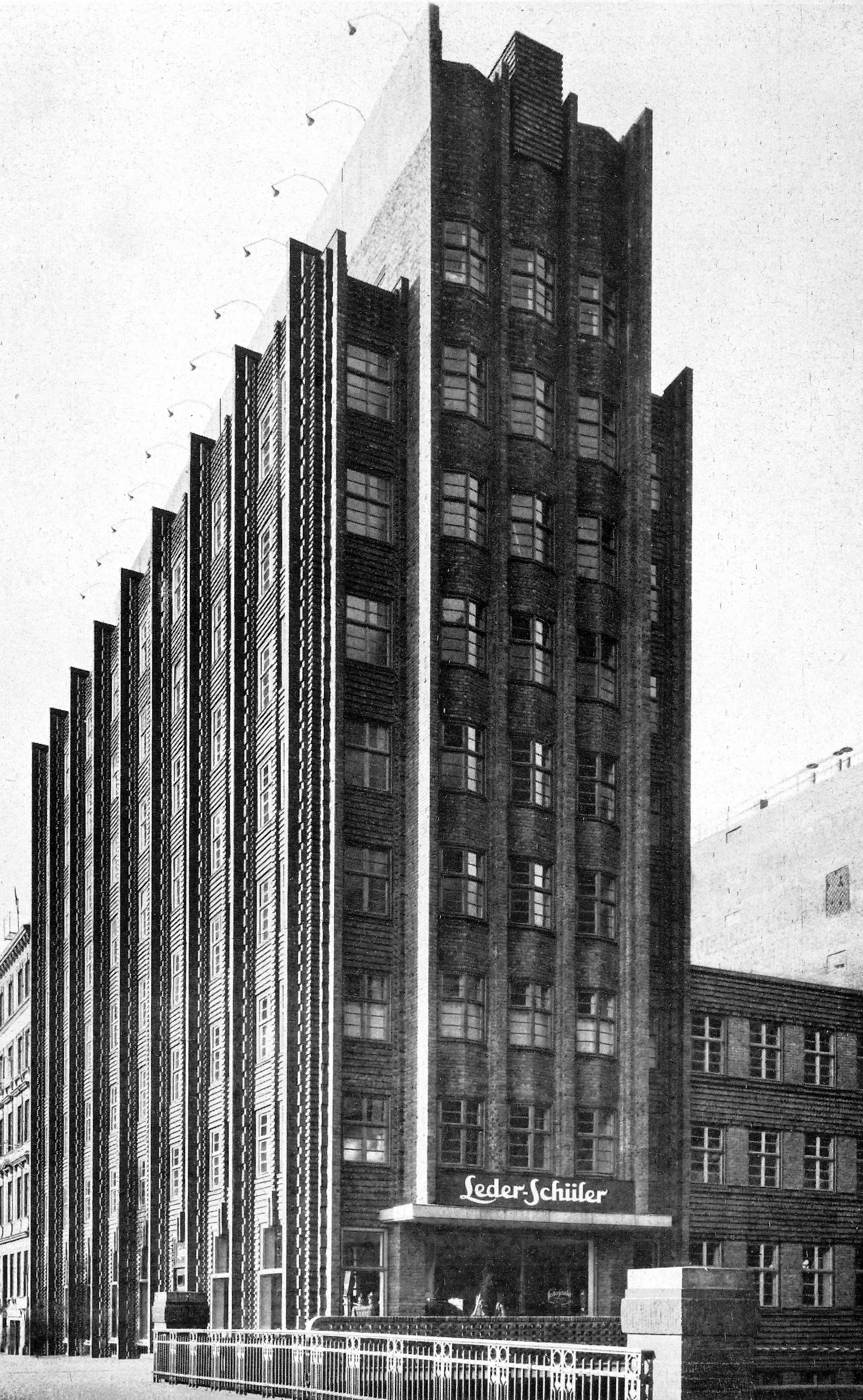 Office building of Leder-Schueler leather manufacturer, located at Heidenkampsweg in Hammerbrook quarter of Hamburg, Germany. The contemporary image was taken by Hamburg-based photographer Carl Dransfeld (1880-1941), between 1928 and 1938. Architect was Fritz Hoeger.